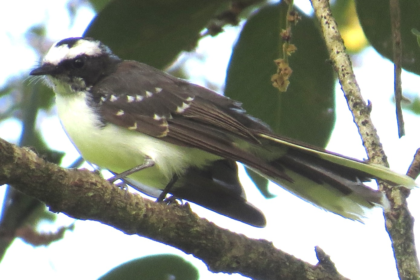 White-browed fantail (Rhipidura aureola)